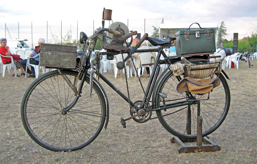 A bicycle adapted for knife grinding